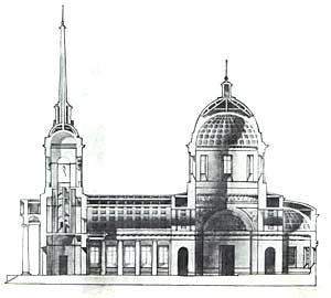 Drawing of Saint Alexander Nevsky Sobor (1819)